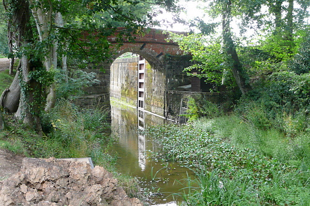 Devils Hole Lock on the Wey and Arun Canal, built by Josias Jessop